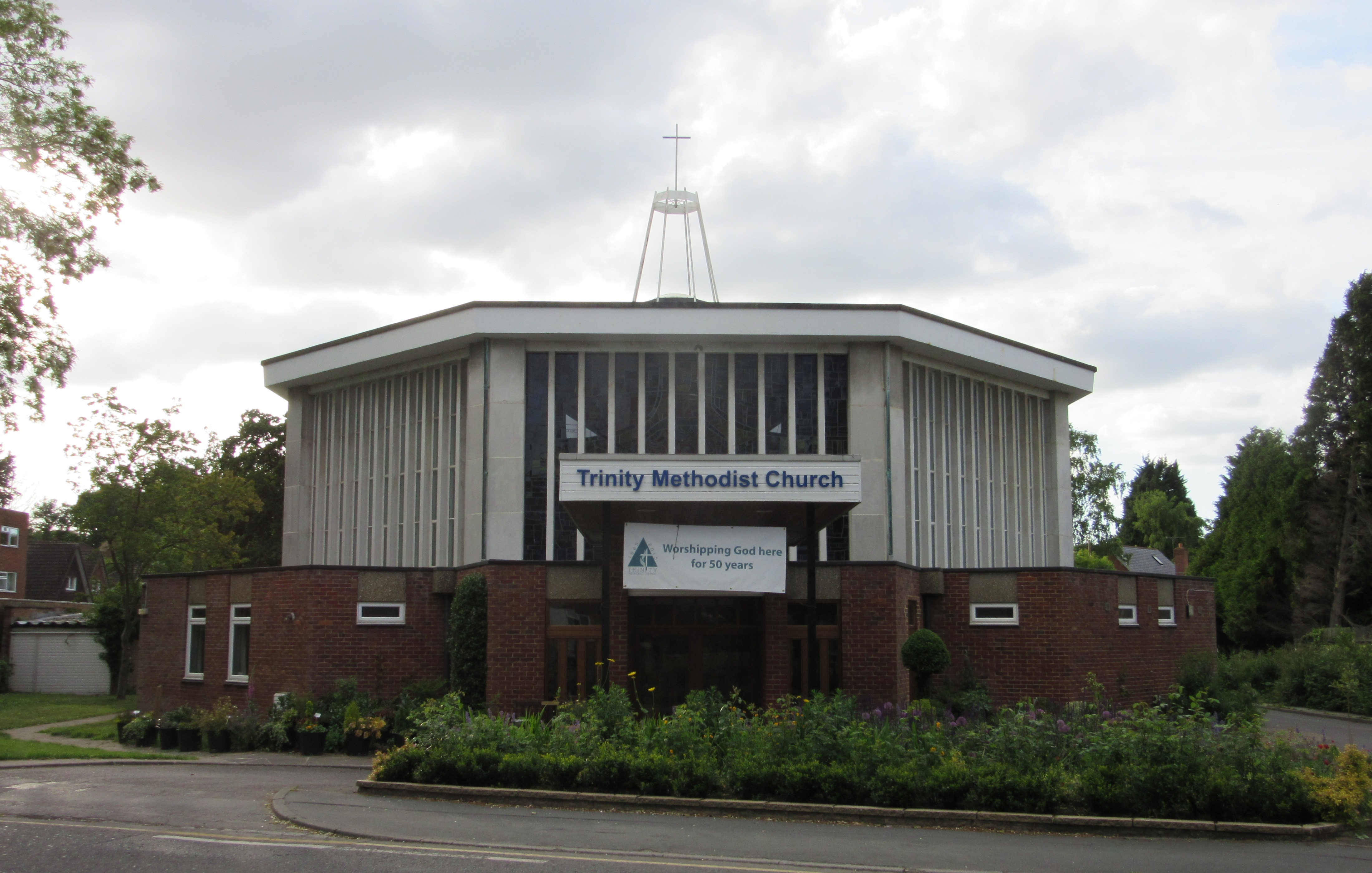 Trinity Methodist Church, Brewery Road, Woking, Borough of Woking, Surrey, England.